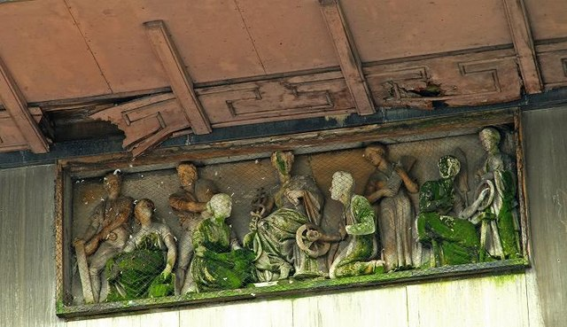 The North Street Arcade, Belfast (detail). See 693152. This panel is above what was the Donegall Street entrance. It originally adorned a linen warehouse and depicts scenes from that industry. Now covered in gunge and mesh but still in reasonably good condition.